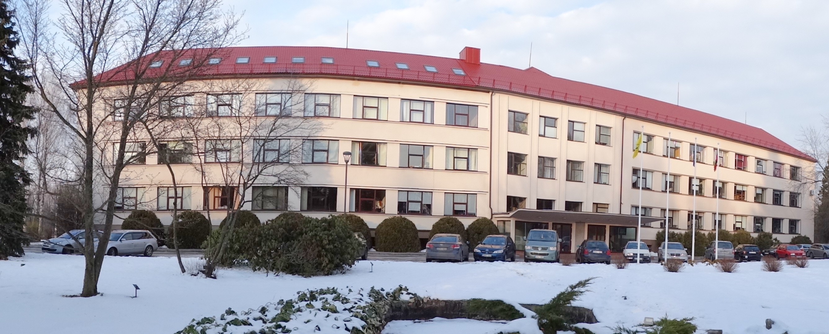 Forest Research Institute, Girionys, Kaunas District, Lithuania